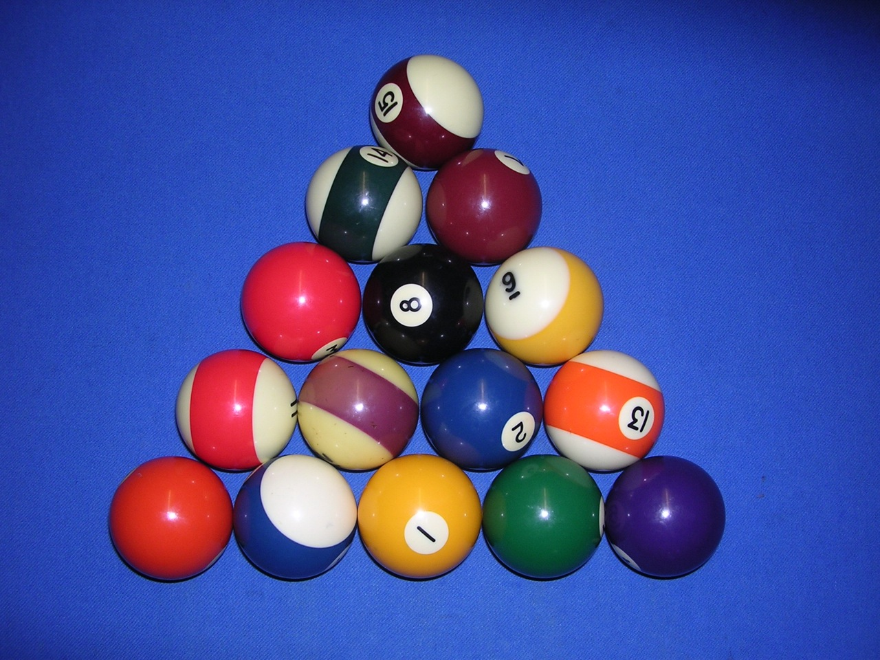 pool balls